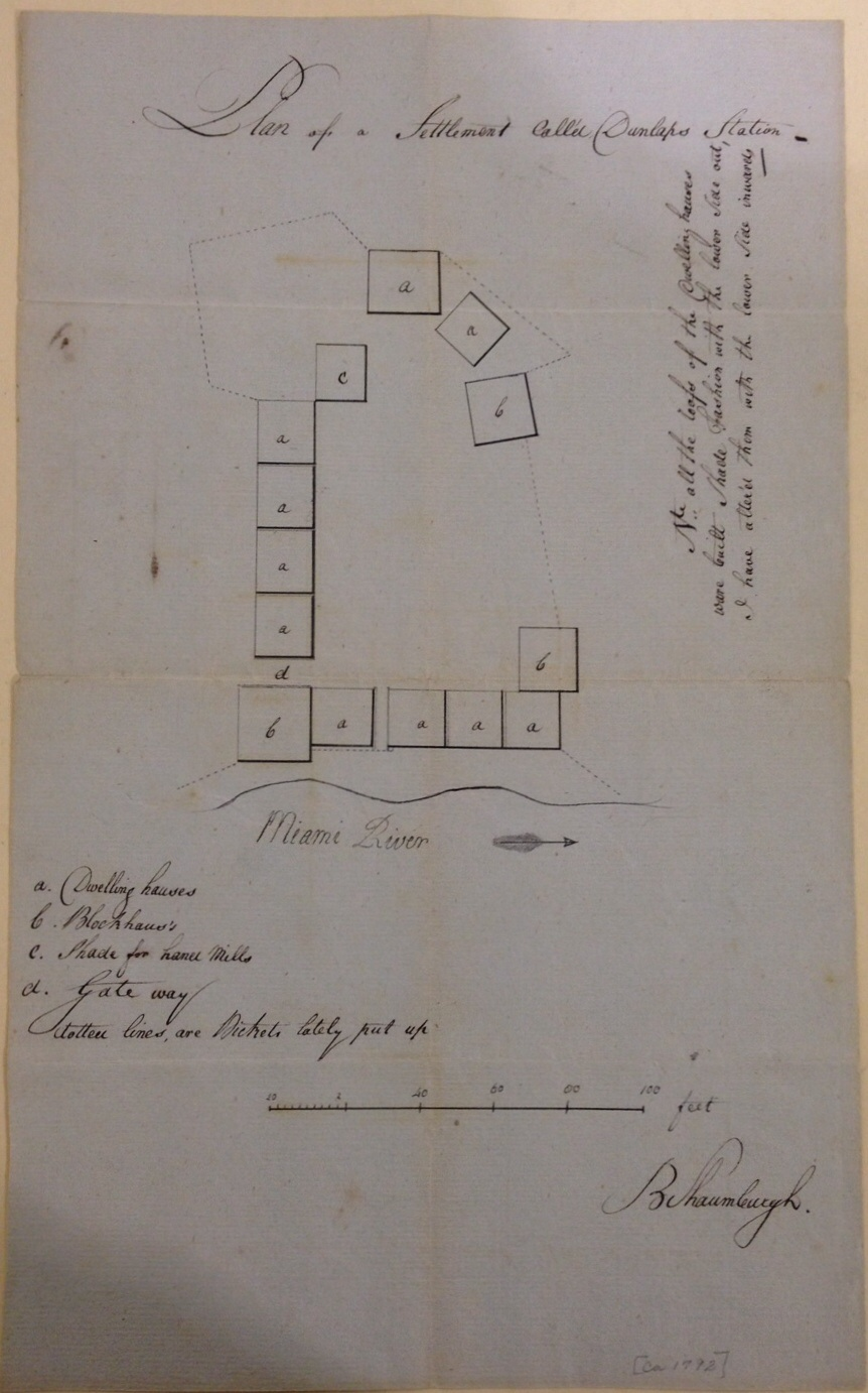 Published: [ca. 1792] Copy-Specific Note: ACQ: Harmar Papers. References: Brun 708. Note: Signed at lower right: B. Shaumburgh. Ground plan of fortified settlement with table of references identifying types of buildings. Additional note discusses changes made to roofs of the houses. Physical Description: 1 ms. map ; 32.5 x 20 cm.